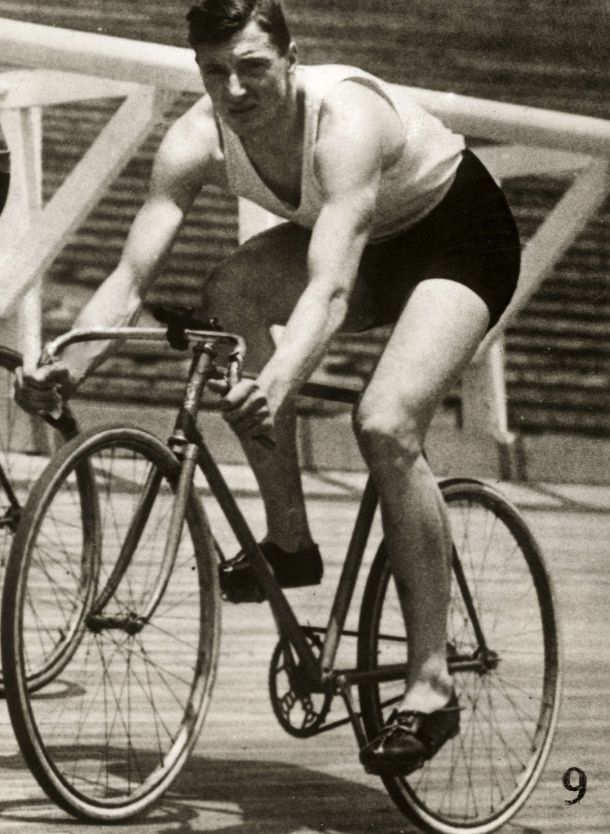 Jacobus Johannes (Jacques) van Egmond (1908 - 1969), Dutch racing cyclist. Wins the gold medal on the discipline sprint at the Los Angeles Olympic Games of 1932.